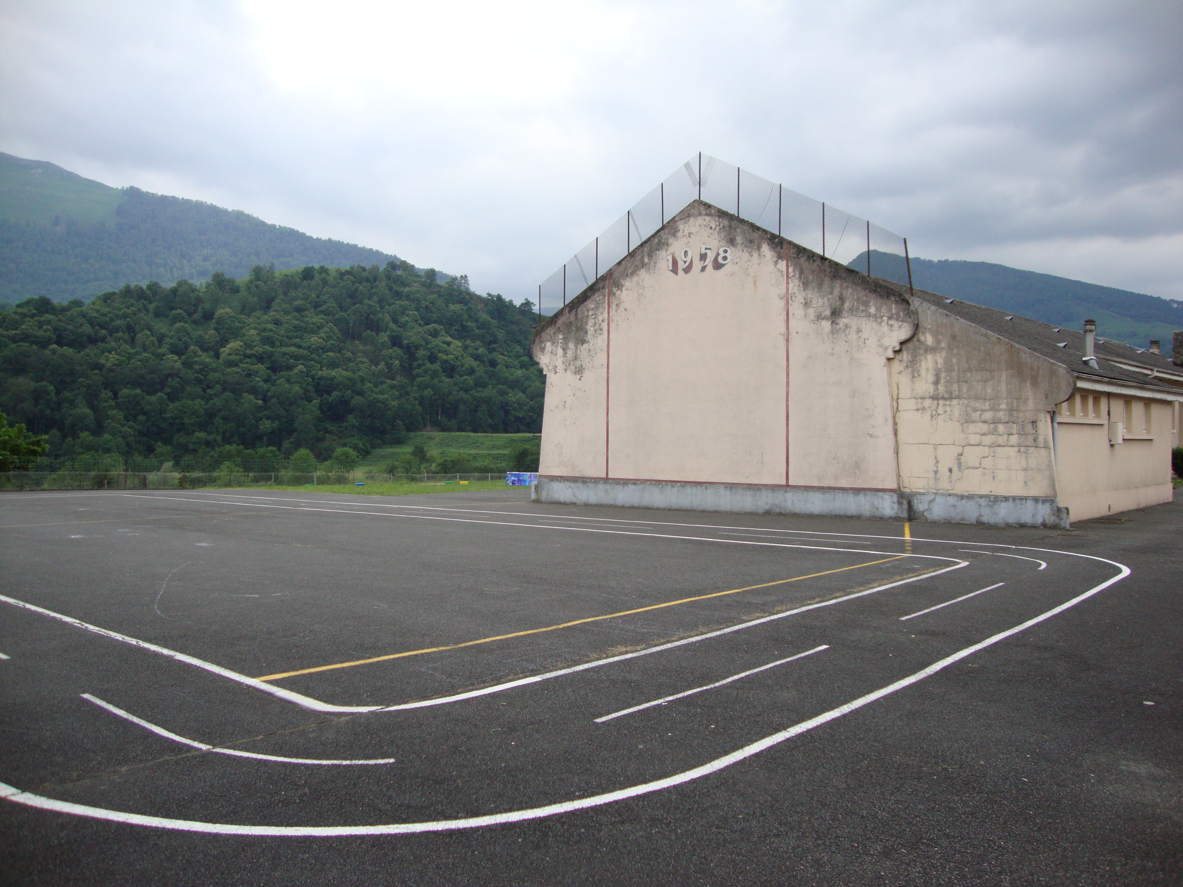 Issor (Pyr-Atl, Fr) fronton